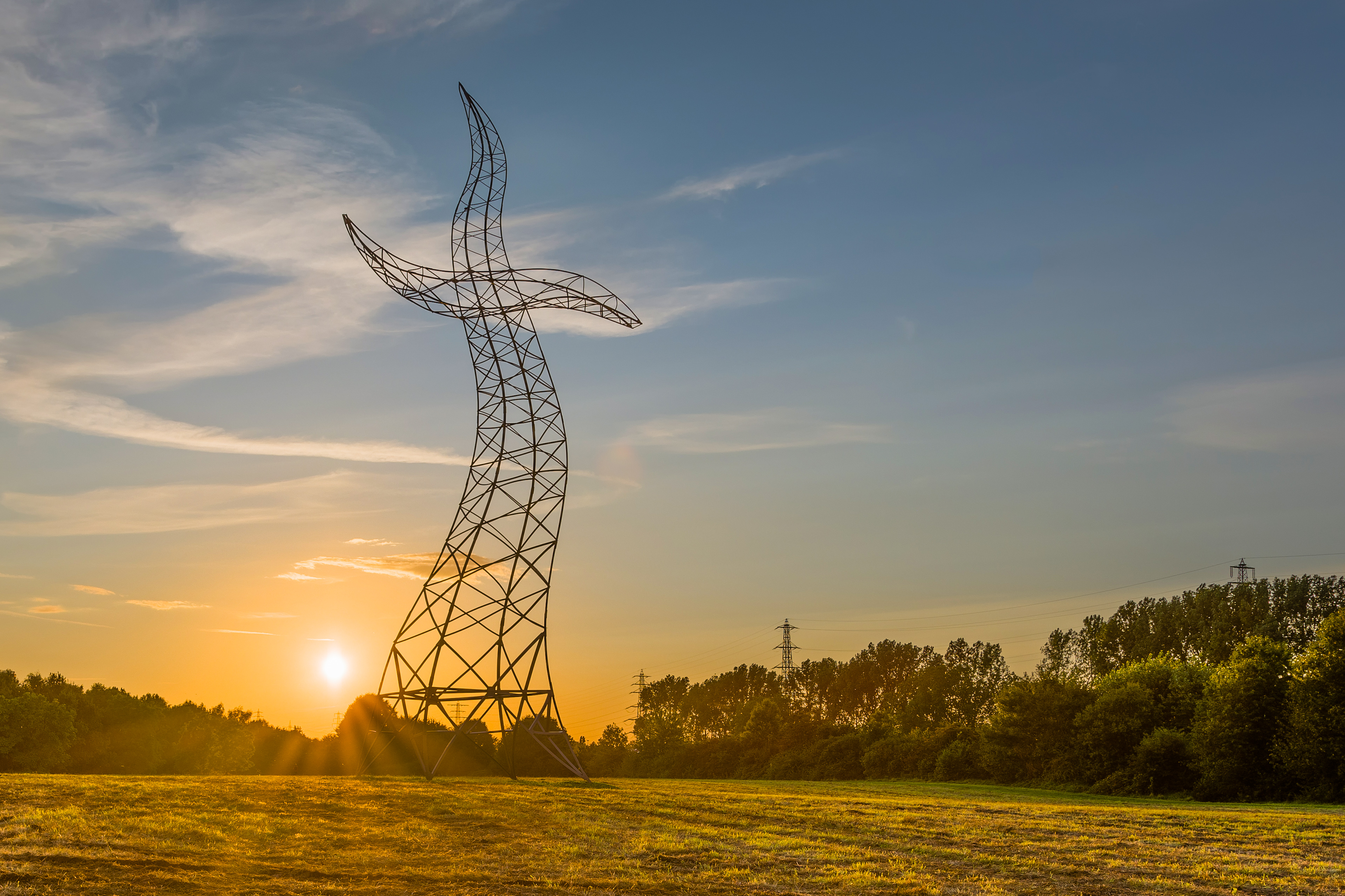 Iron sculpture Zauberlehrling (sorcerer's apprentice) looking like a deformed and dancing power pole, photographed at sunset. Created for EMSCHERKUNST, an art exhibition in the public space.